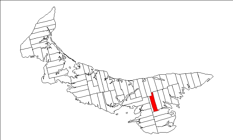 Public domain map of Prince Edward Island created by User:Plasma east with data courtesy of Geogratis, modified to show townships. Released under GFDL (self).